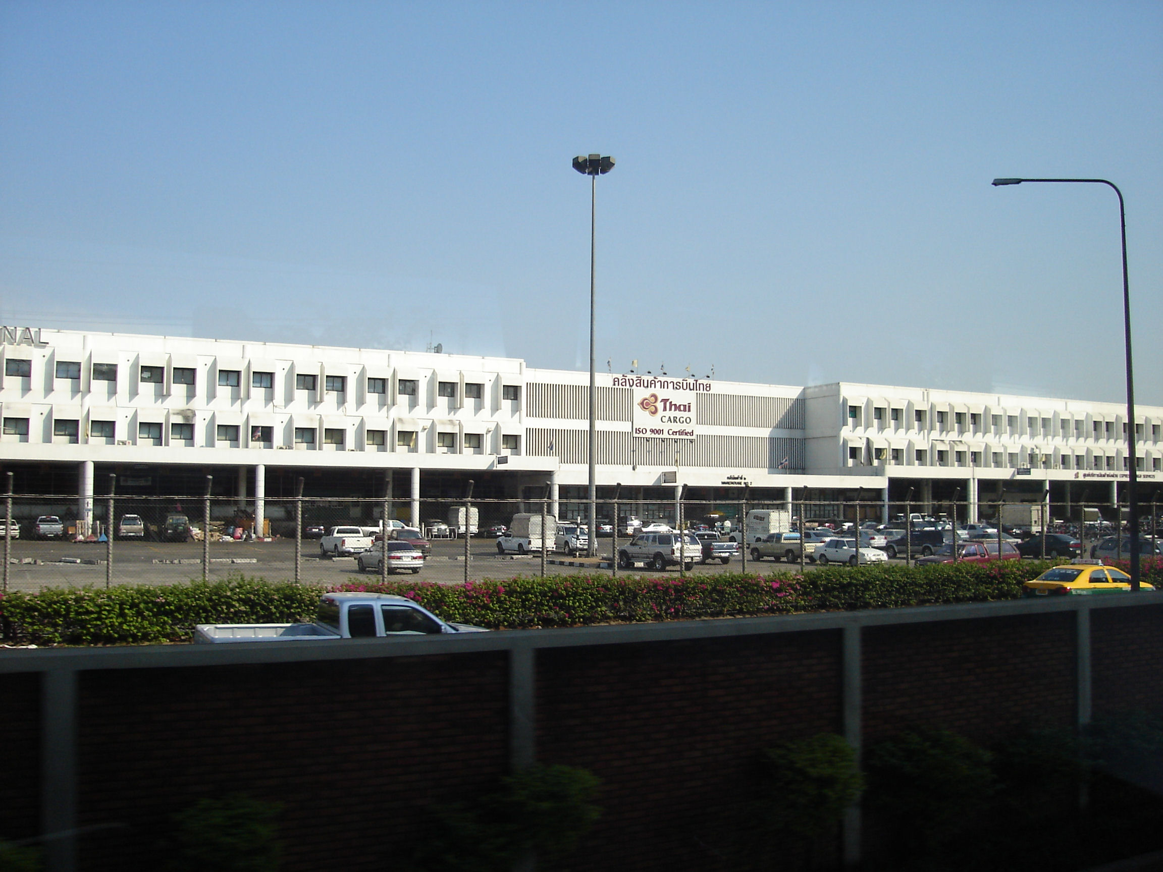 Don Mueang International Airport Cargo Terminal in Thailand